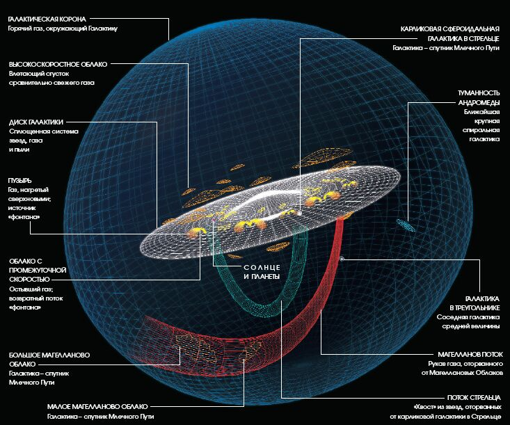 Our Galaxy and its environs